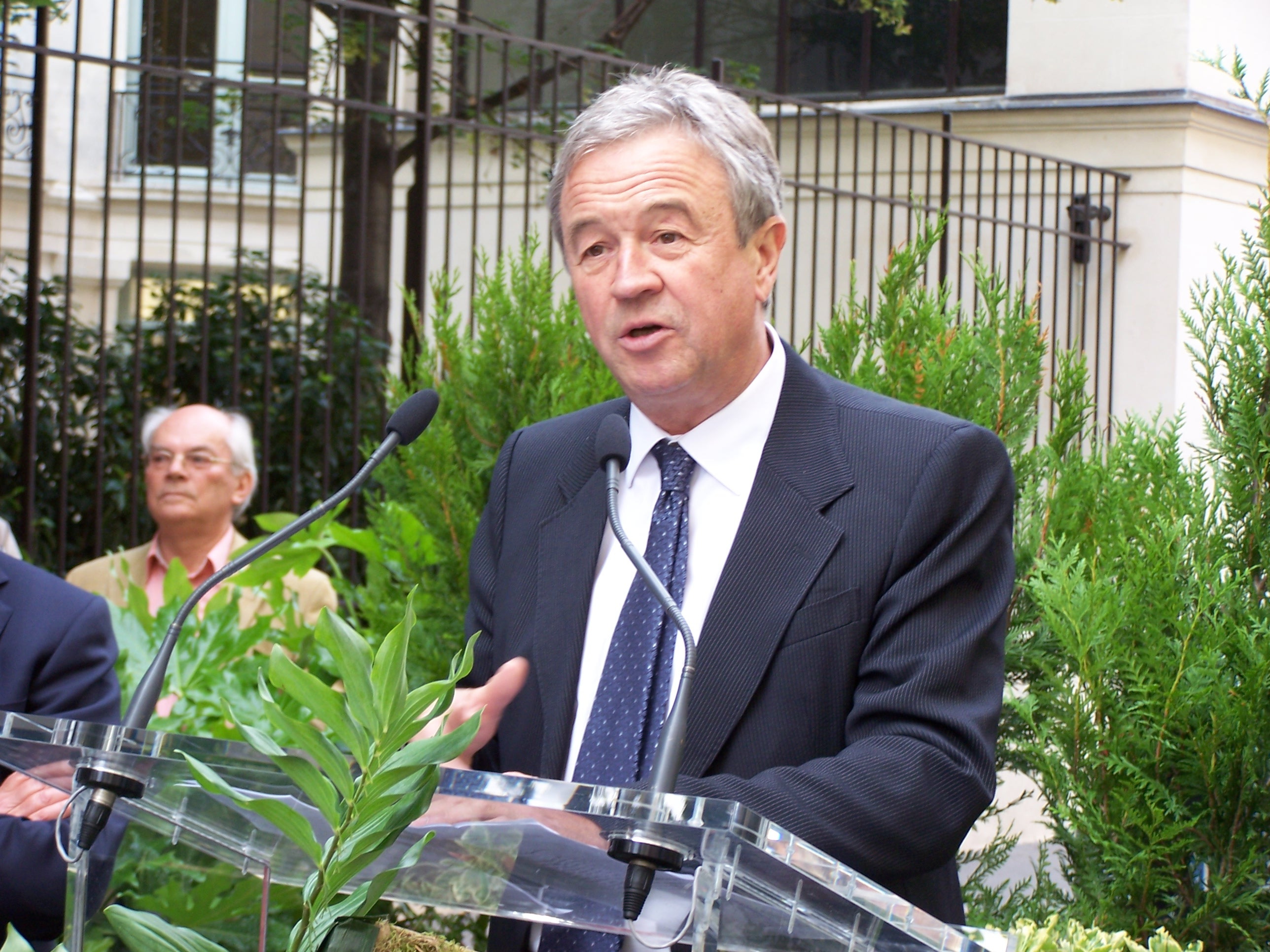 Inauguration de la rue Gaston-Gallimard, discours d'Antoine Gallimard